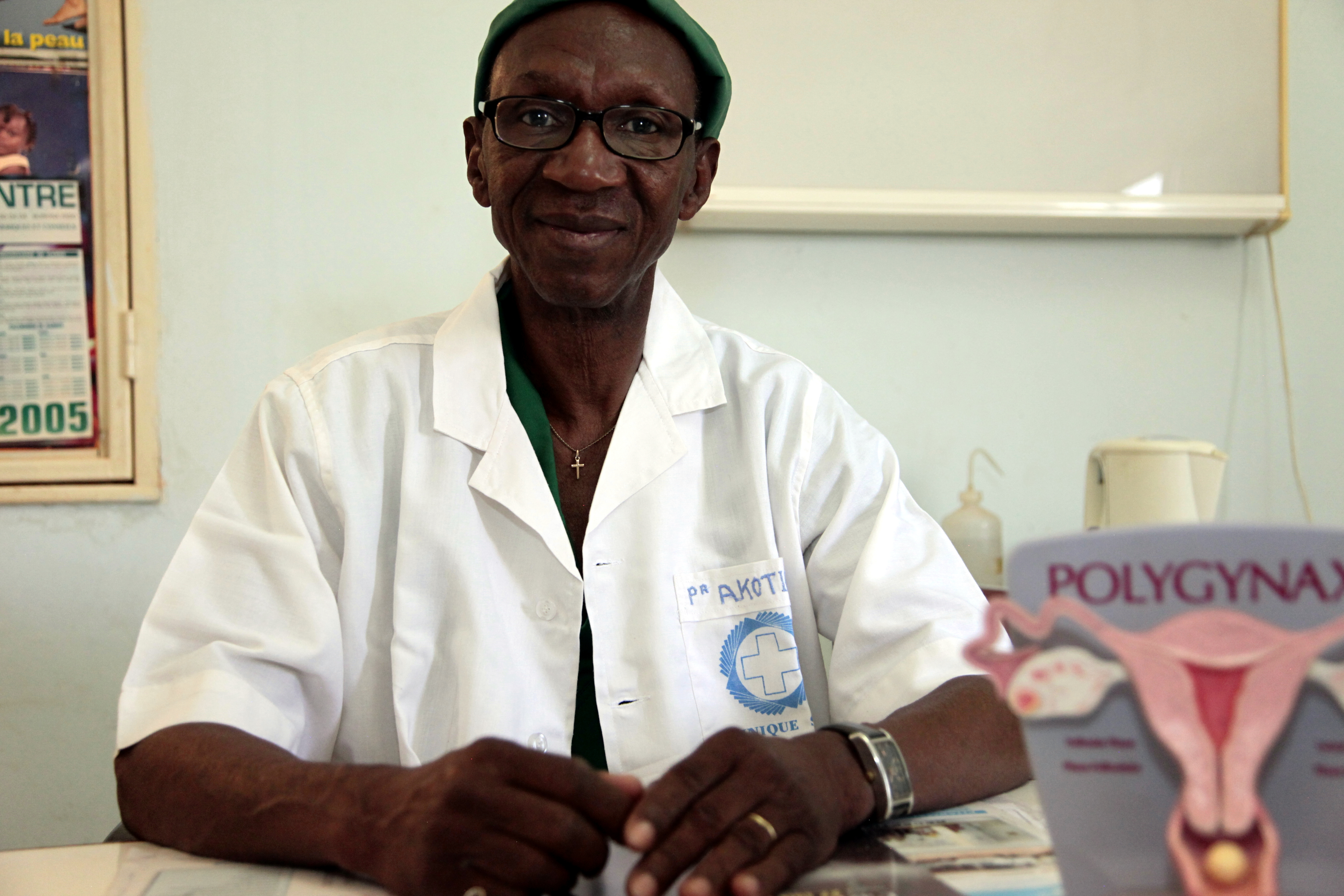 Professor Michel Akotionga heads up the service for treating women suffering the consequences of FGM/C at Suka Clinic in Burkina Faso.